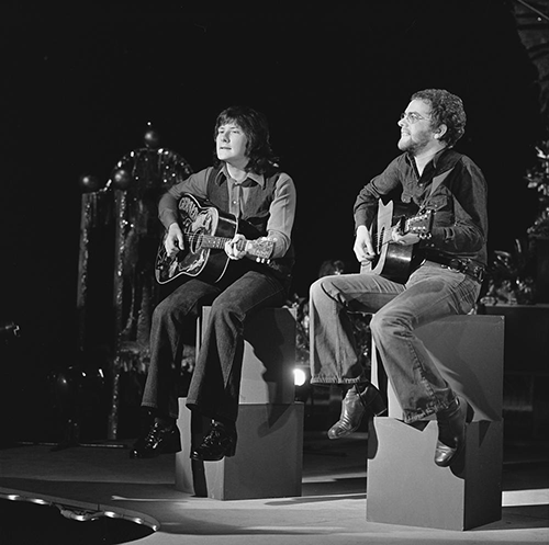 Stealers Wheel in AVRO's TopPop (Dutch television show) in 1973. From left to right: Gerry Rafferty, Joe Egan.